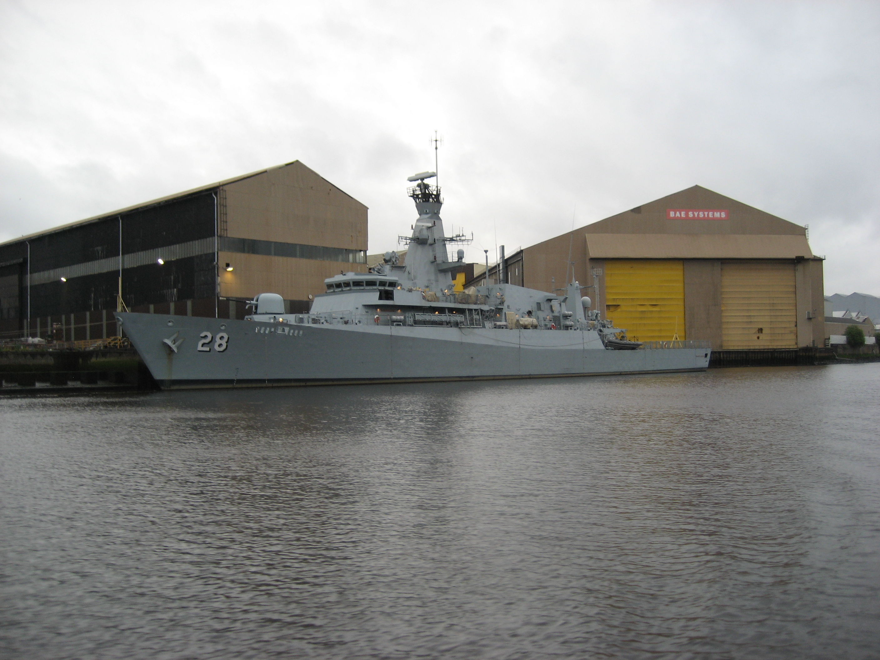 The Nakhoda Ragam on the River Clyde.